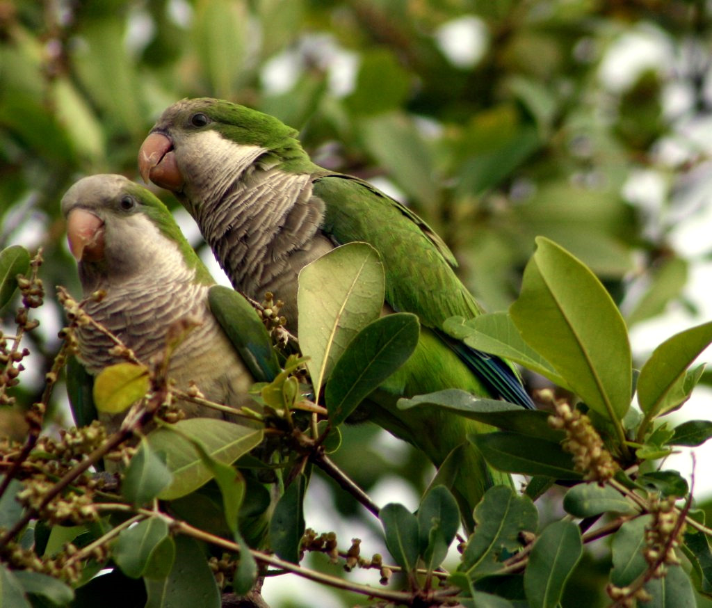 Monk Parakeets (also known as the Quaker Parrot) in Boynton Beach, Florida, USA.